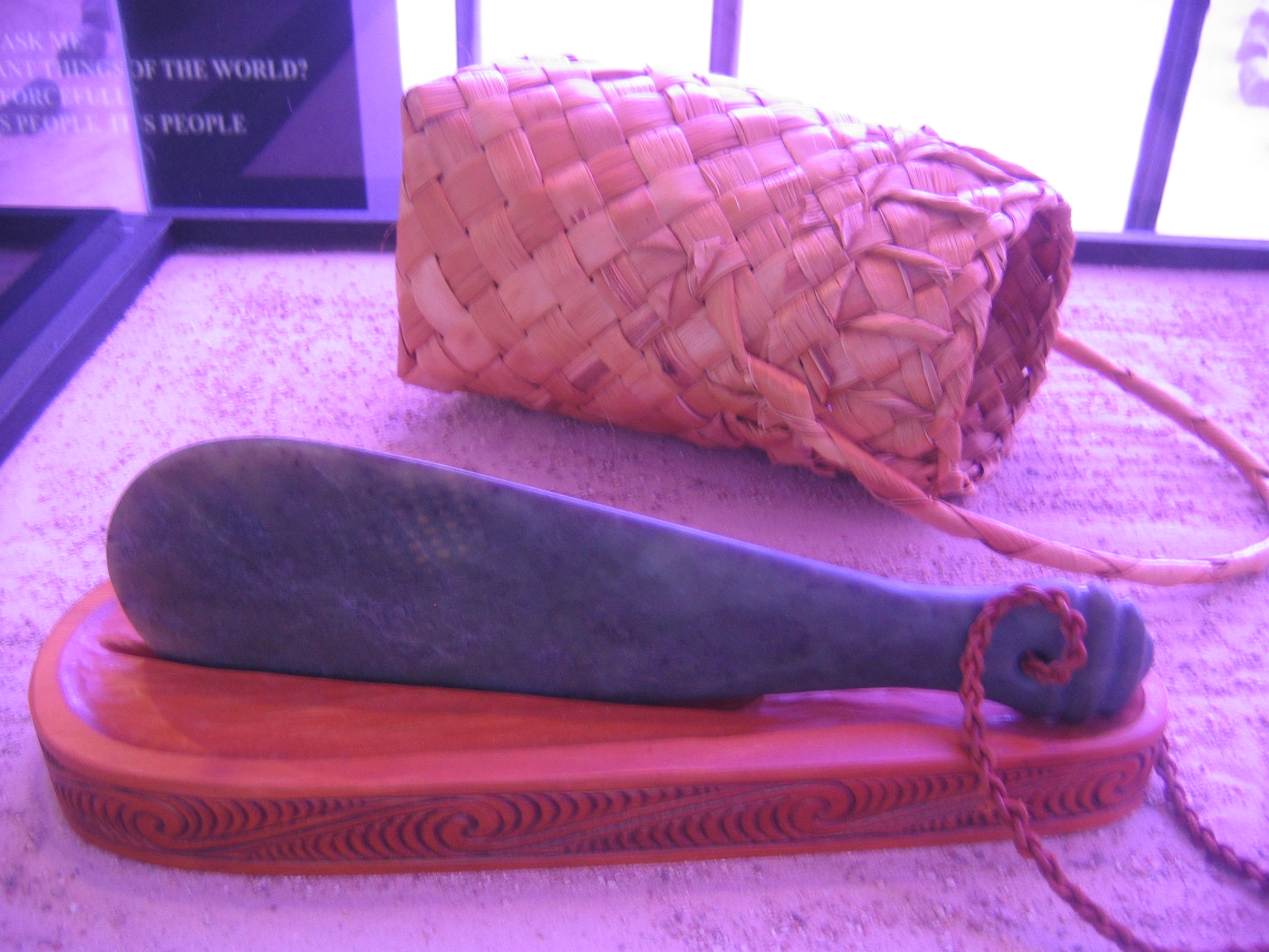 Ceremonial jade club used by the Māori people in New Zealand.